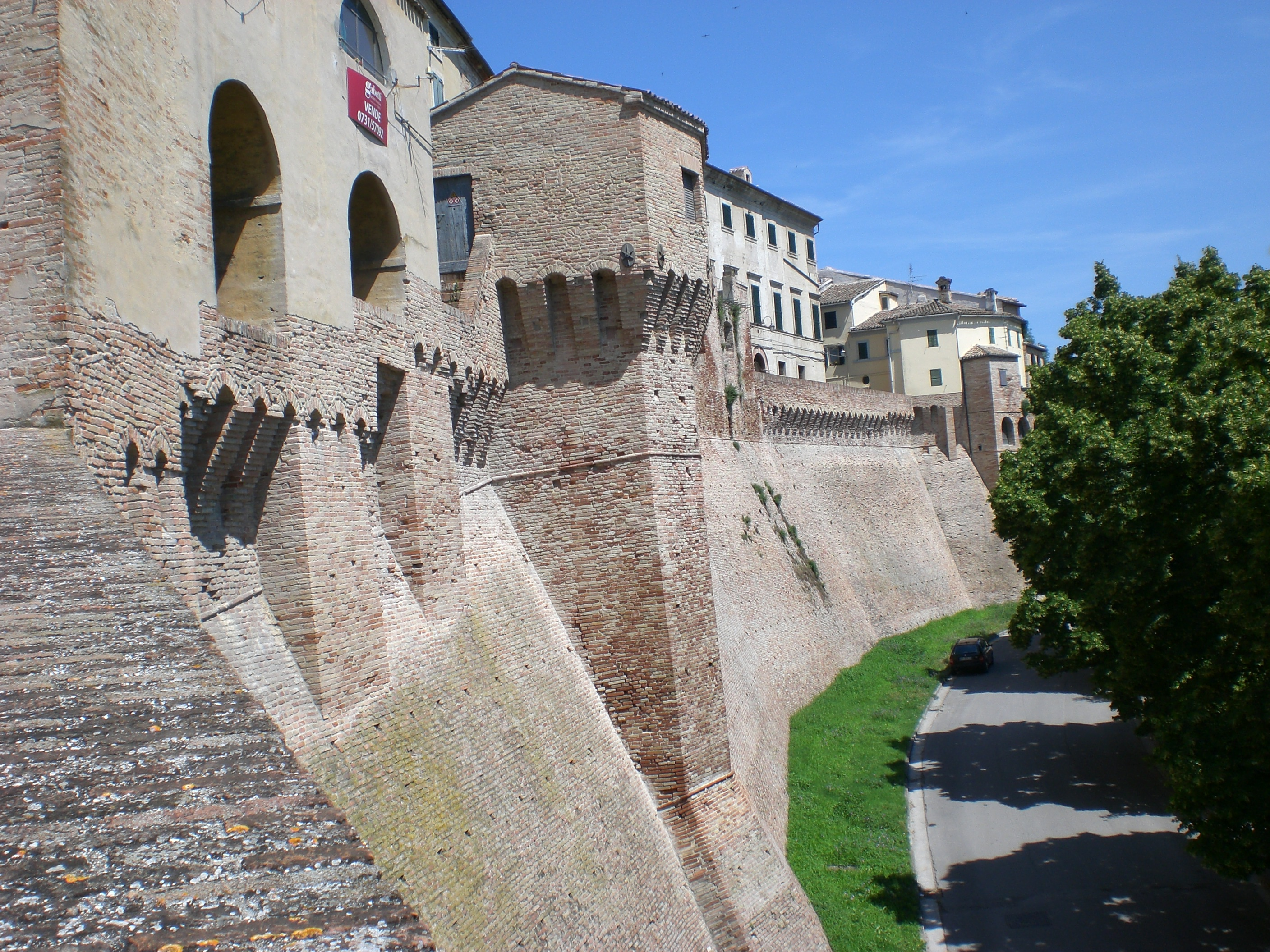 Jesi, Old Town Walls